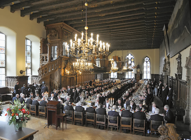 The Schaffermahlzeit banquet in the upper council chamber of the town hall of Bremen (Germany) in the year 2009.